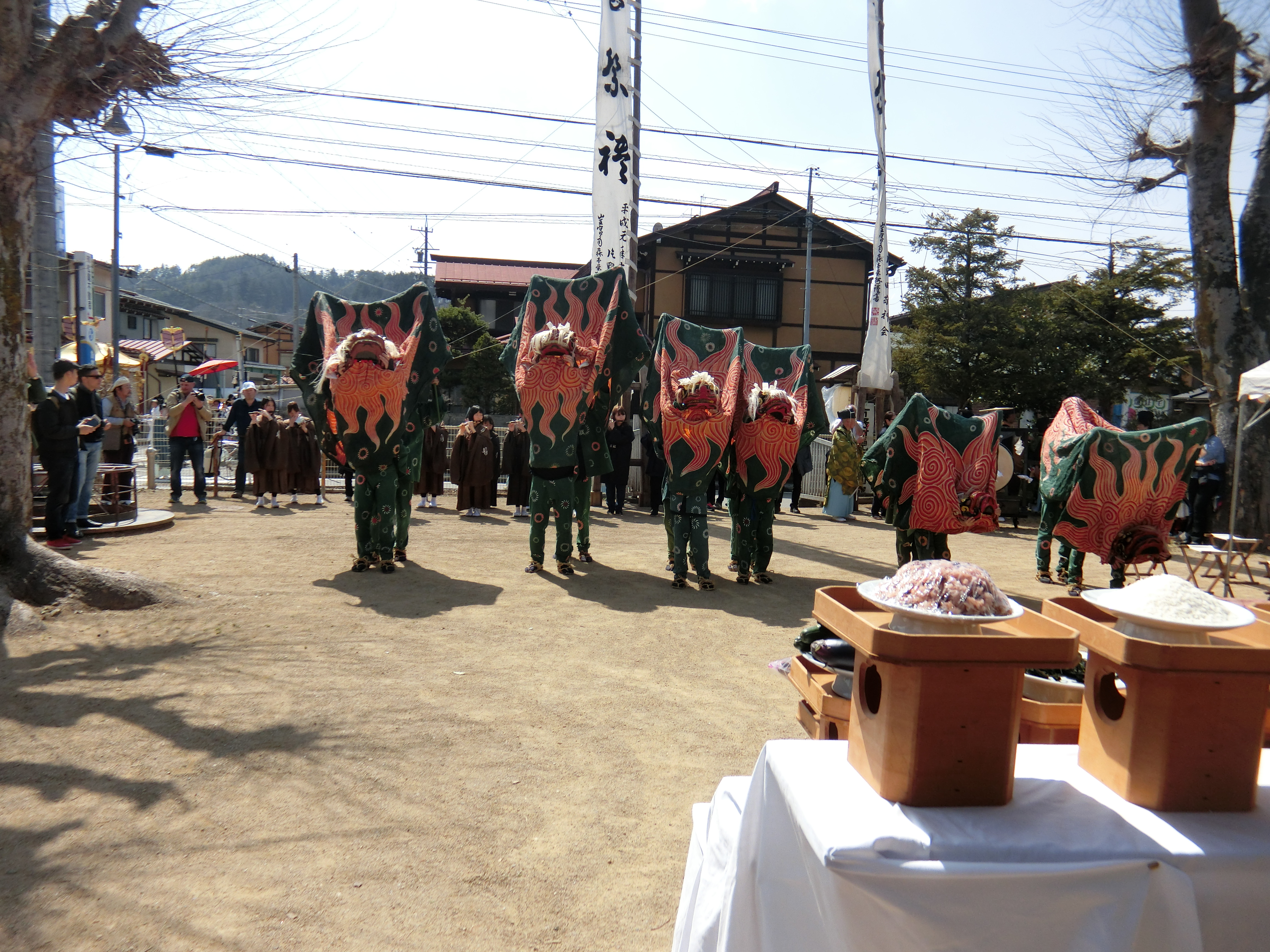 Lion dance performing art of Takayama festival.